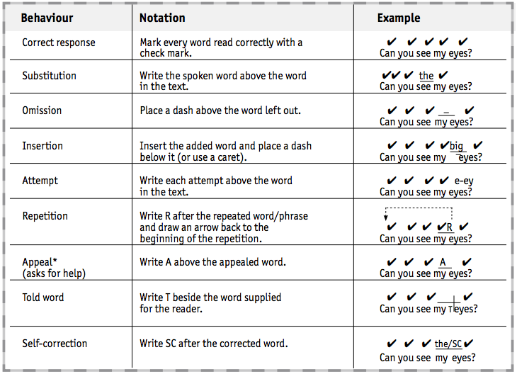 This image displays an easy description of how running records are taken and the codes that must be used.